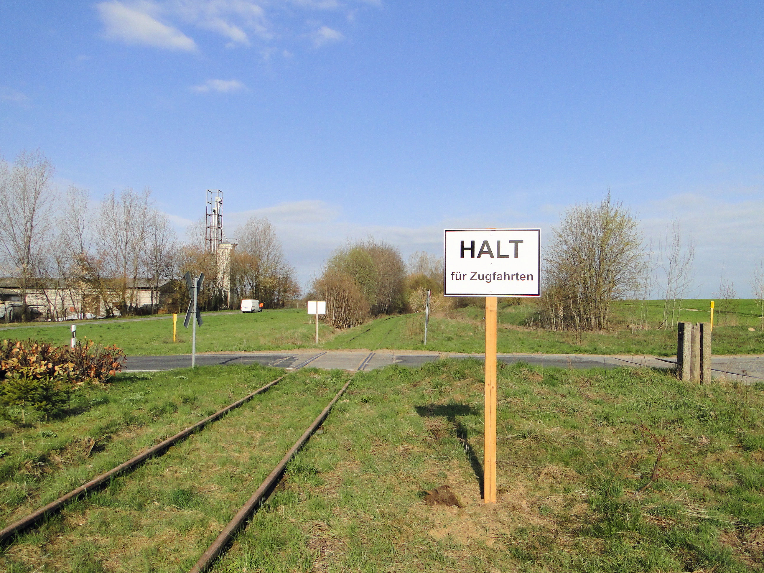 Stop sign for trains at a level crossing at railway line Ganzlin–Röbel in Altenhof, disctrict Müritz, Mecklenburg-Vorpommern, Germany